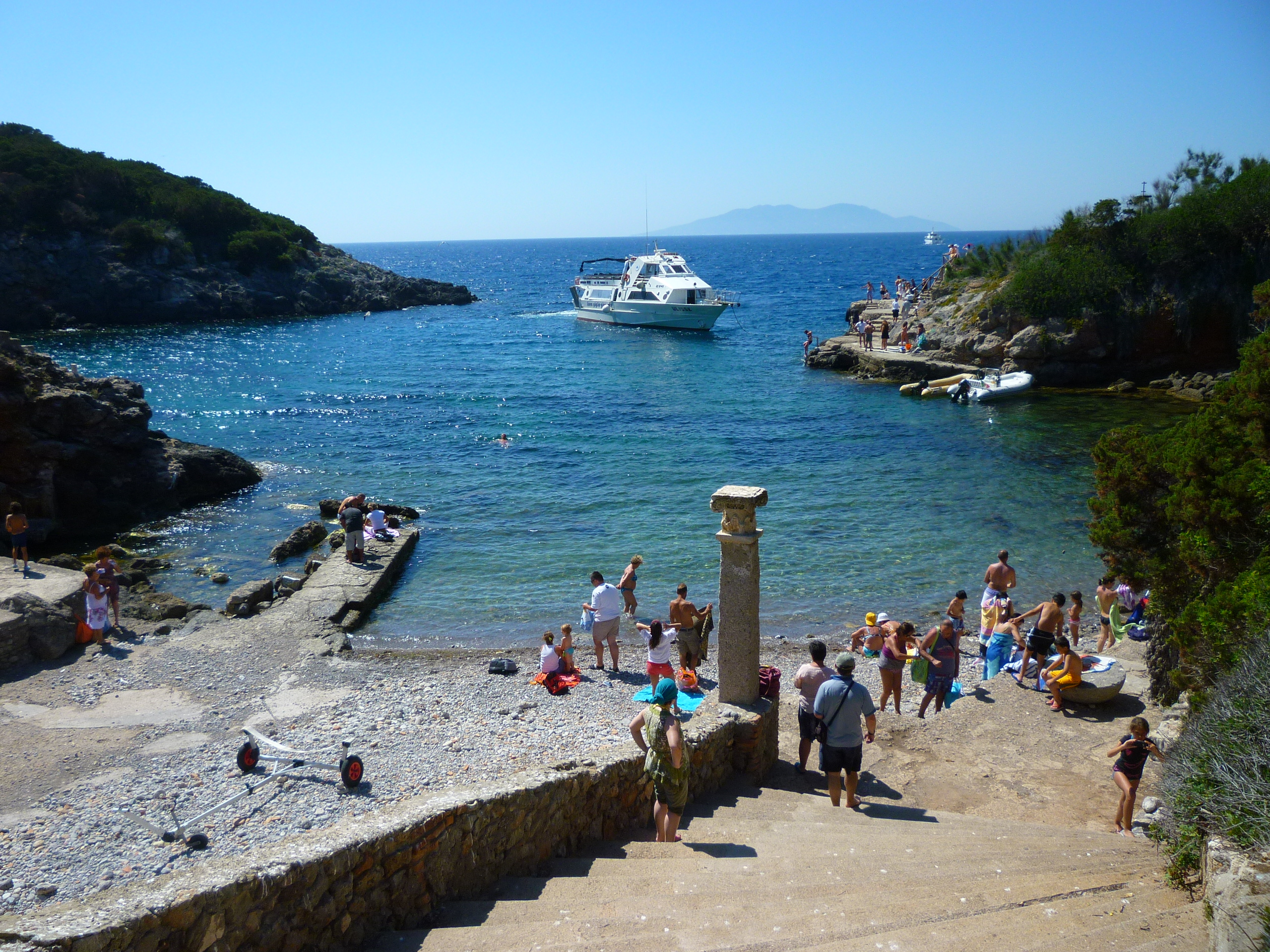 Porto romano nell'isola di Giannutri (Grosseto - Toscana - Italia)